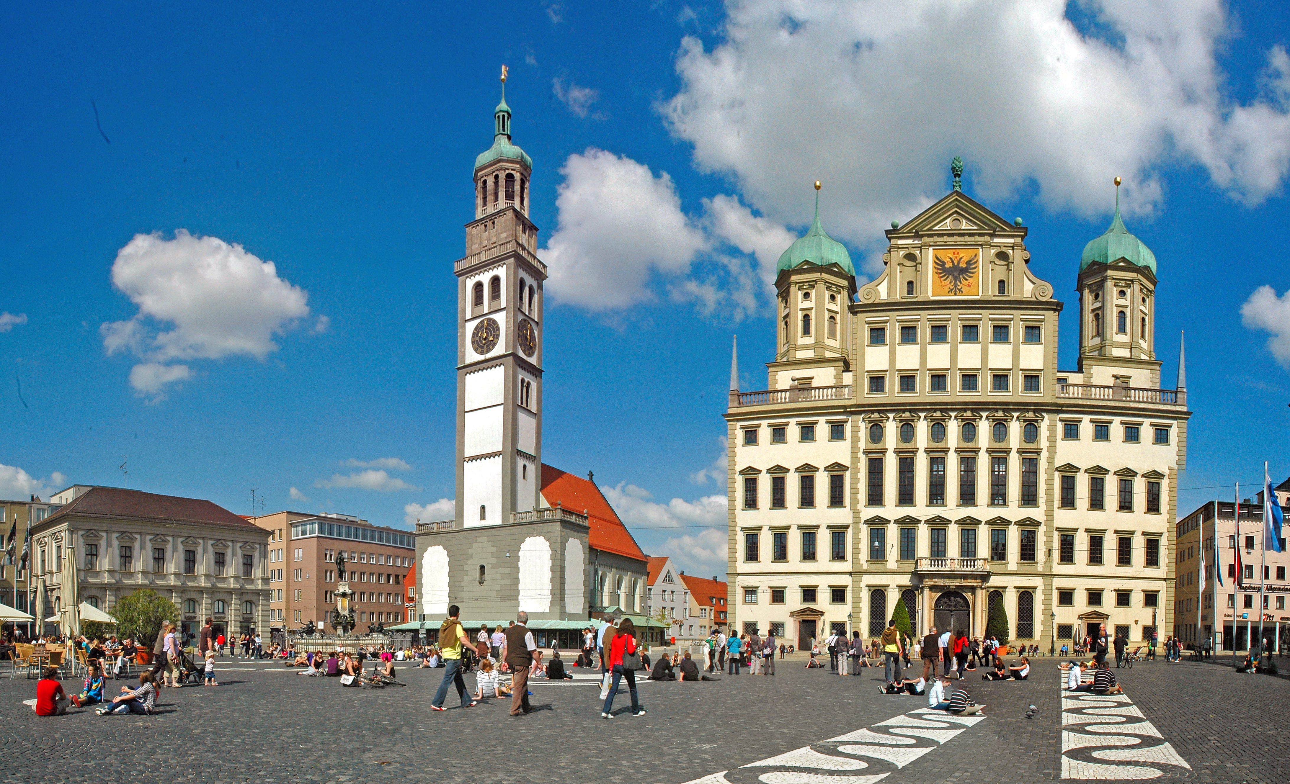 Augsburg - Town Hall Place